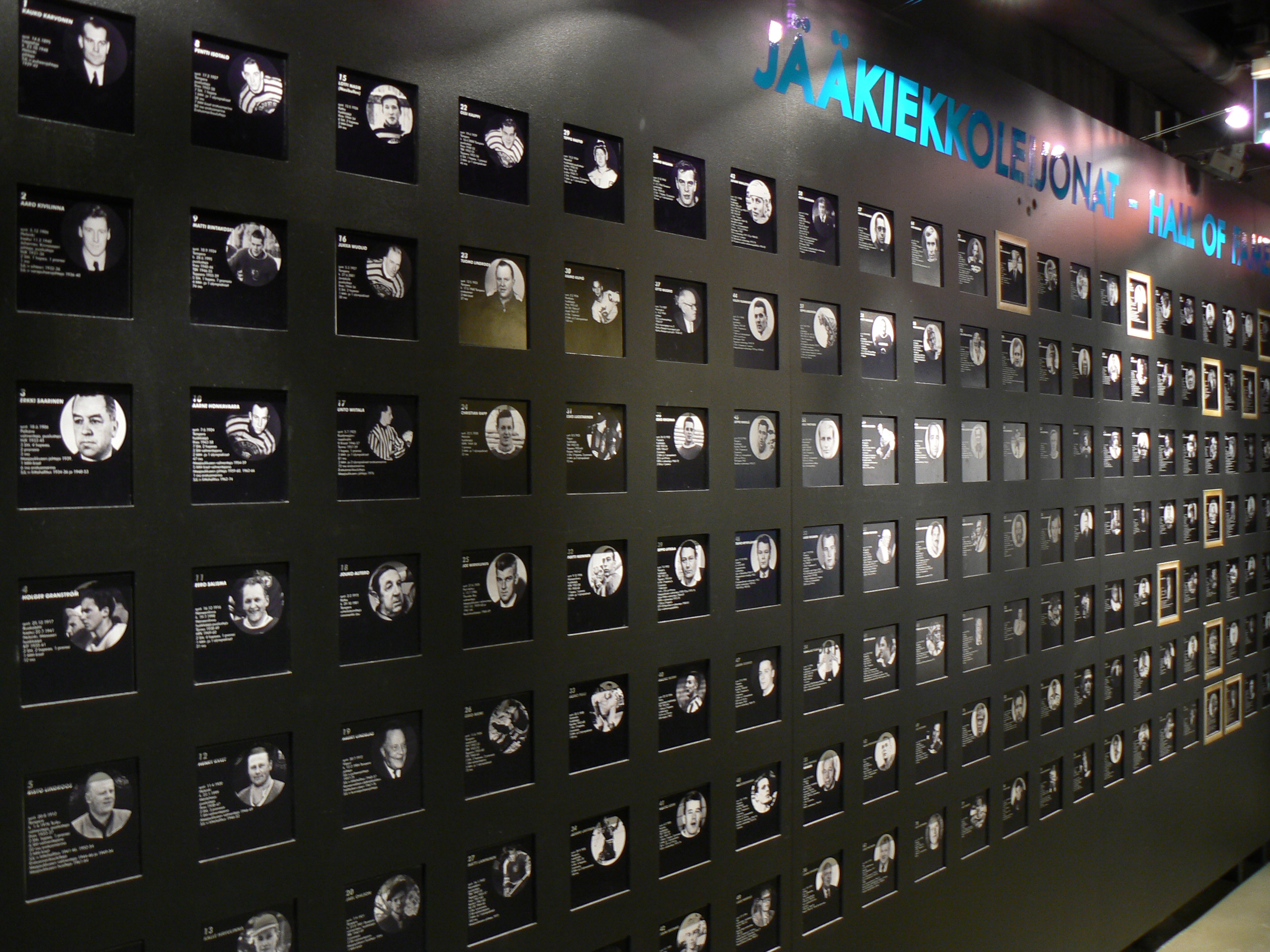 The wall of fame at the Finnish Hockey Museum in Tampere, Finland.